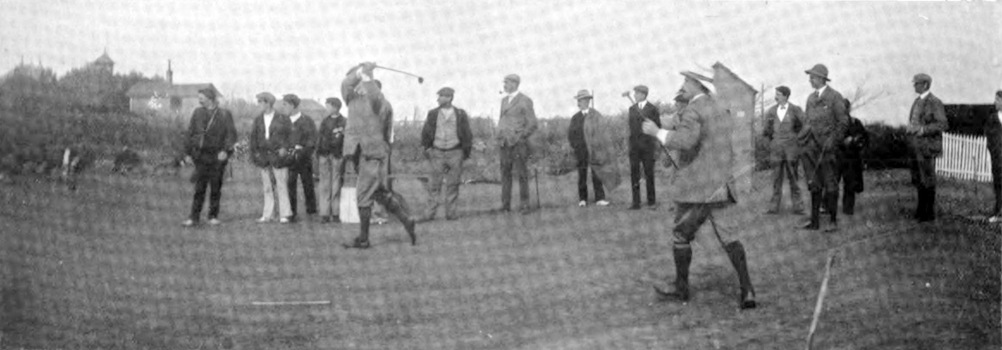 "Golf at Lake Como. A view of competitors in the recent driving competition at the opening of the Lake Como Golf Club, Dervio." From "The King and His Navy and Army", 1905, page 354.